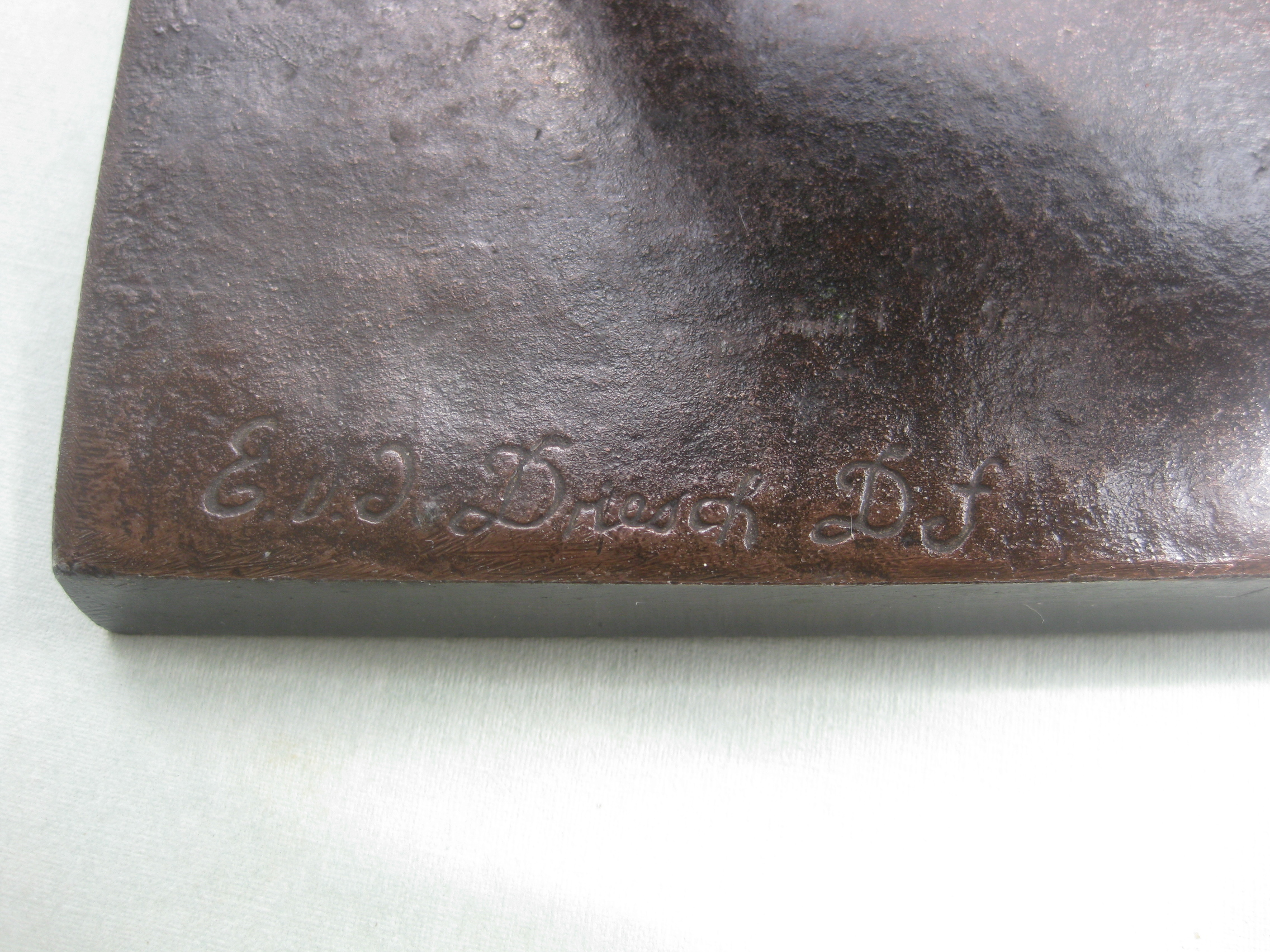 Signature of the German sculptor Erich van den Driesch